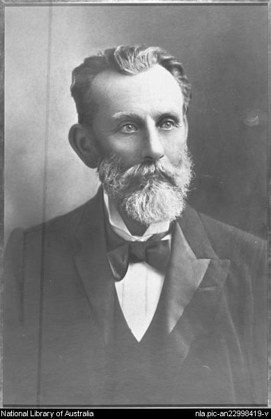 Inscription on the photo: "Hugo Alpen, Superintendent of Music, Department of Music, Department of Public Instruction of New South Wales, 1884-1909" In the Collection of the National Library of Australia